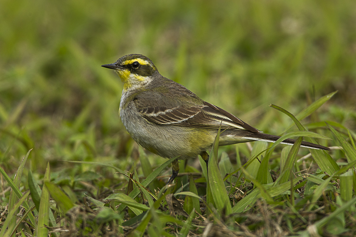 Eastern Yellow Wagtail - Taiwan_S4E8841